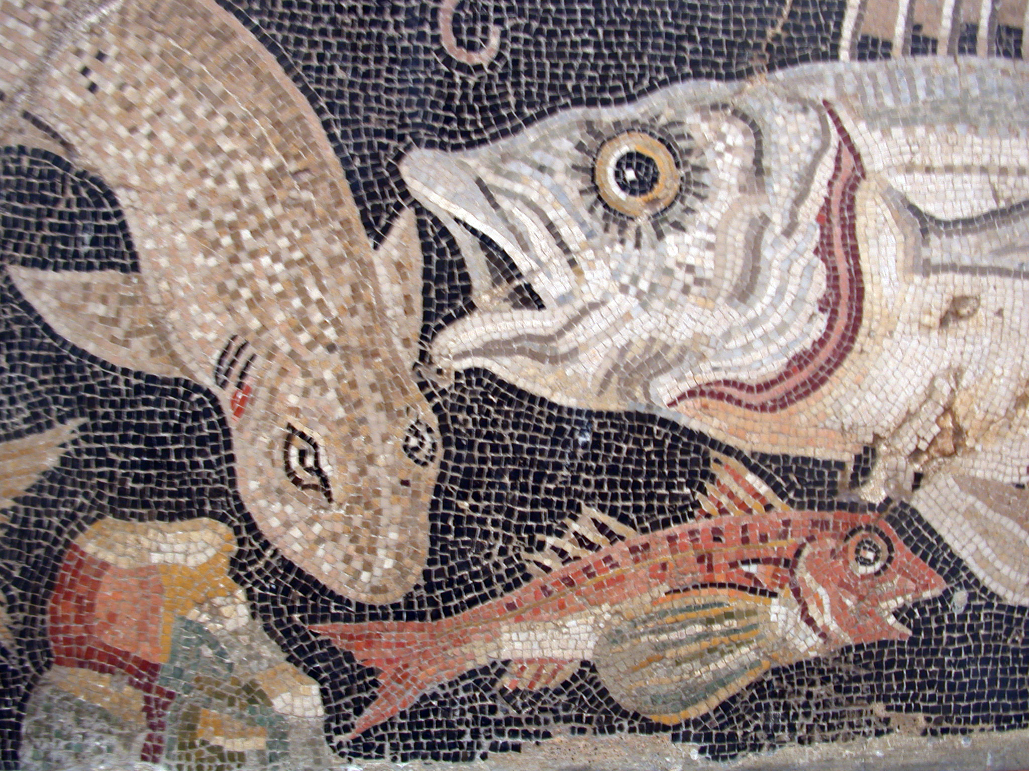 Sea creatures mosaic from Pompeii; National Archaeological Museum of Naples, Italy.